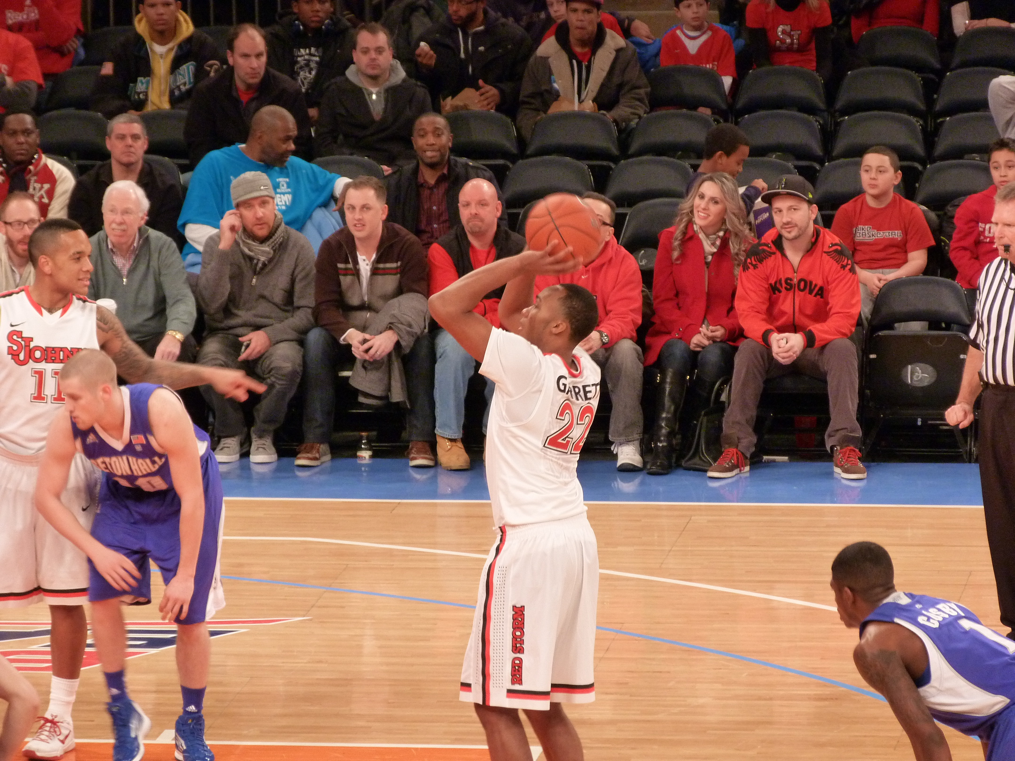 Amir Garrett shoots a free throw for the St. John's Red Storm on January 27, 2013 vs. Seton Hall at Madison Square Garden.